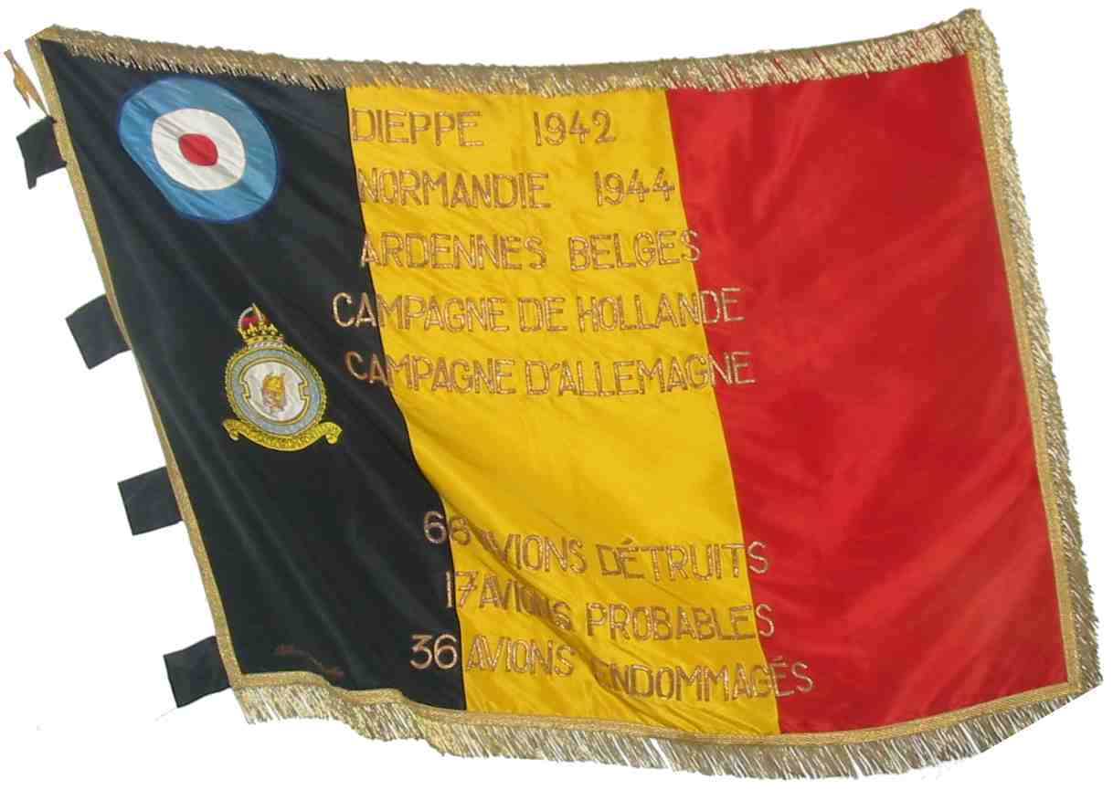 Campaign banner 350(F)Sqn